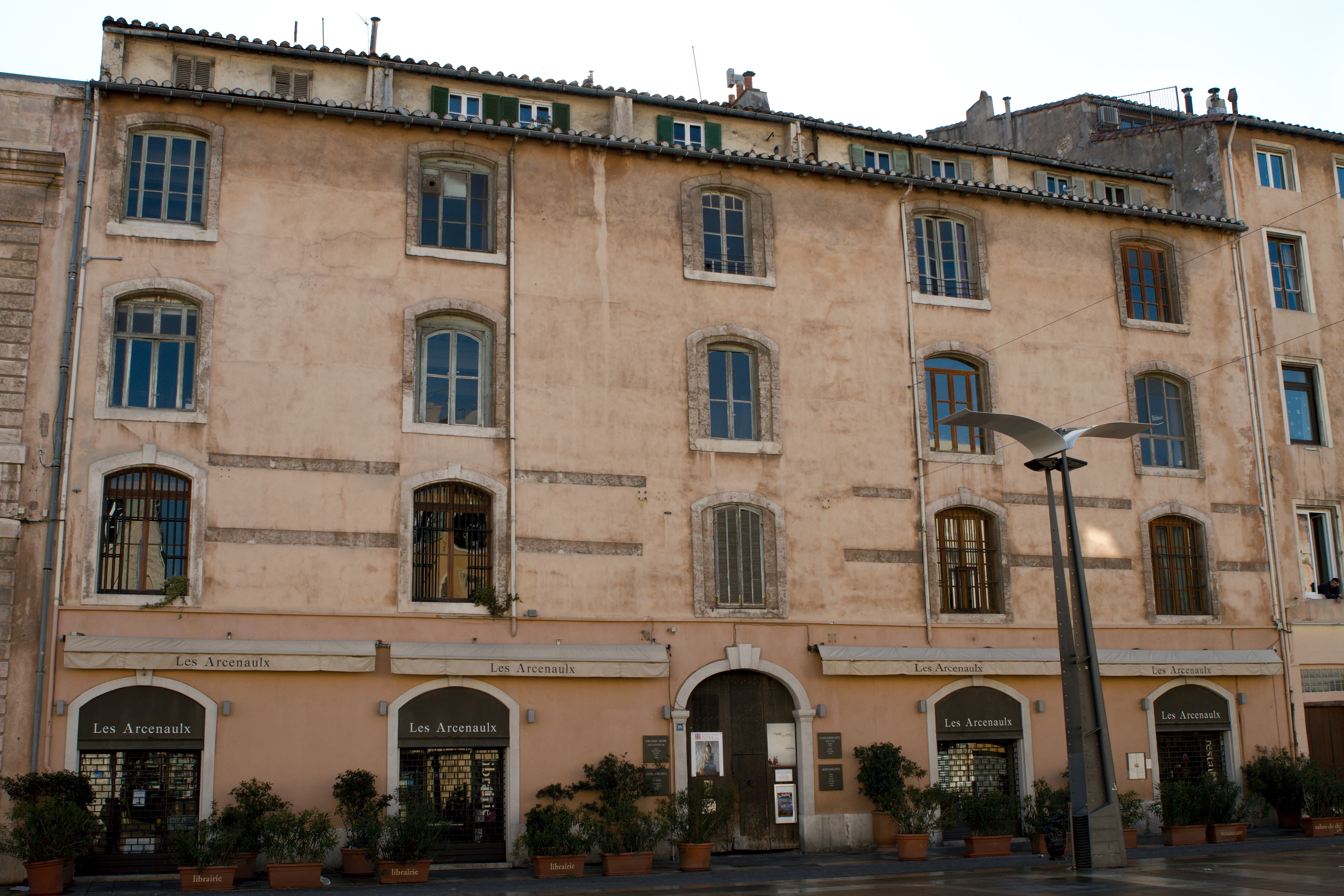 Building at the Cours Honoré-d'Estienne-d'Orves in Marseille, Bouches-du-Rhône (France).